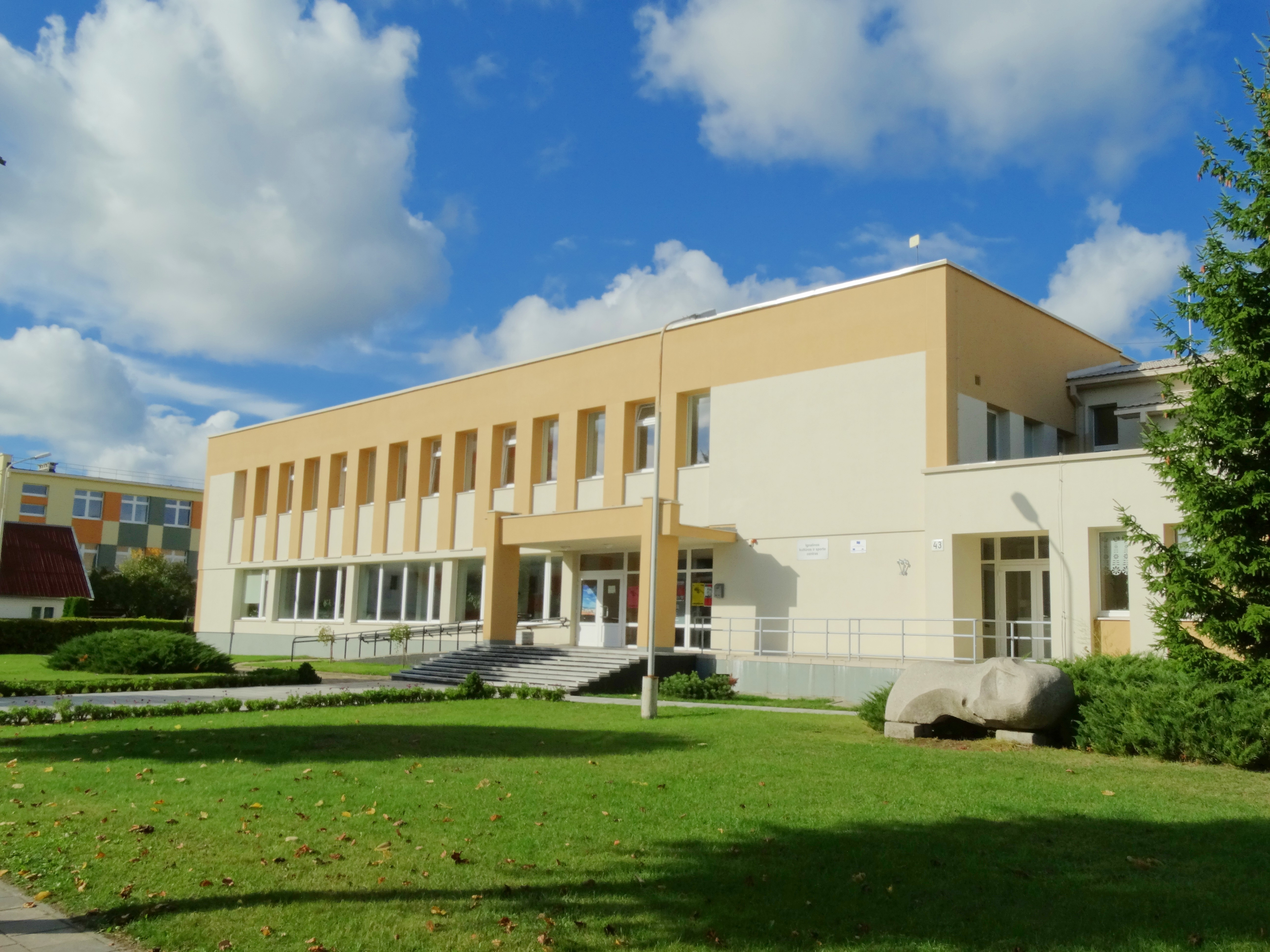 Centre of culture and sports, Ignalina, Lithuania